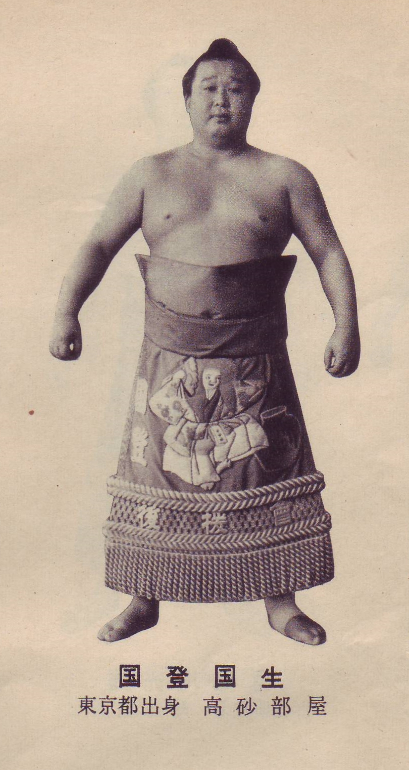 Kuninobori Kunio (Sumo wrestler from Japan. Komusubi). taken in 1958, or before that.